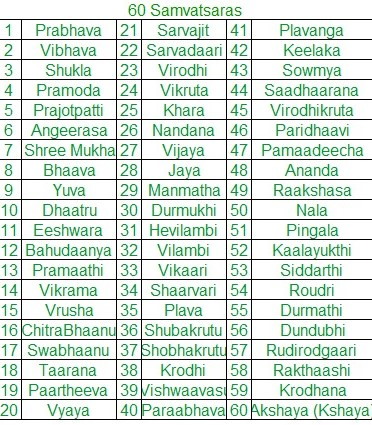 Samvatsar